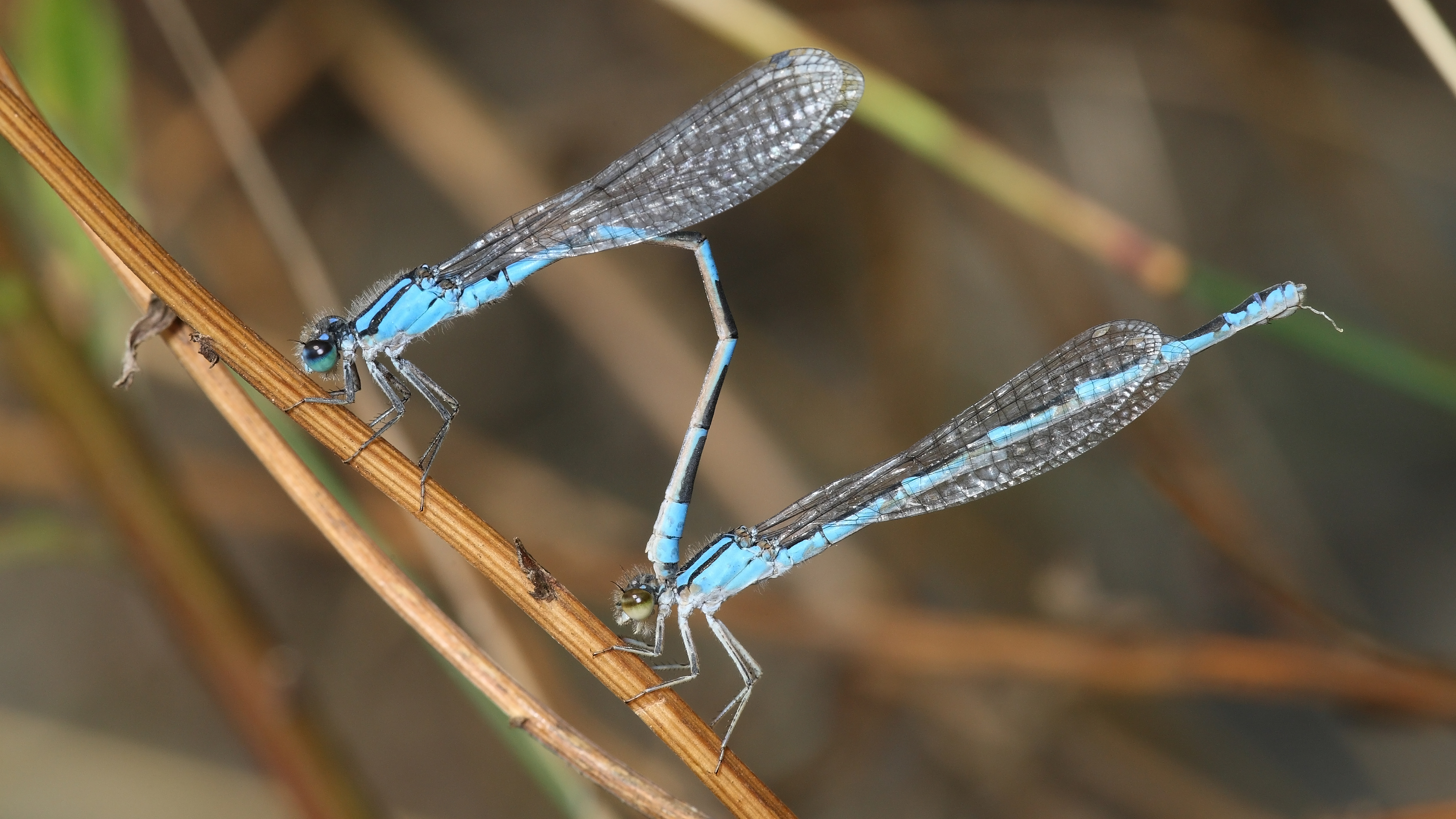 Bluet damselflys (Enallagma spp.) -- near Miller Lake, Ontario, Canada -- 2008 August